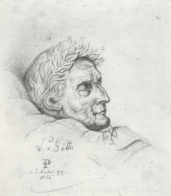 Johann Wolfgang von Goethe on 26 March 1832, four days after his death at the age of 82. Drawn true to life.